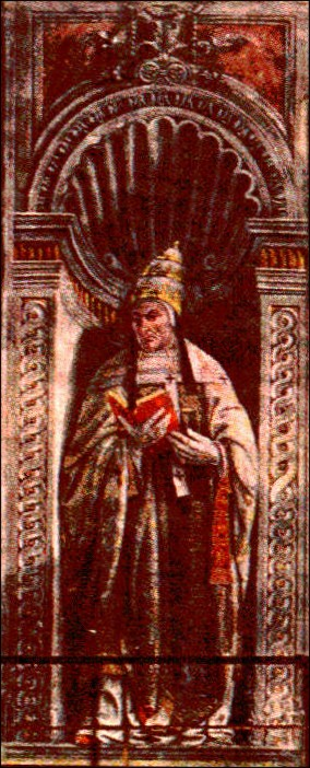 Pope Dionysius (259 - 268), Fresco in Sixtine Chapel, Vatican